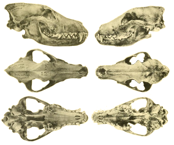 Skulls of Canis anthus lupaster and Canis aureus aureus